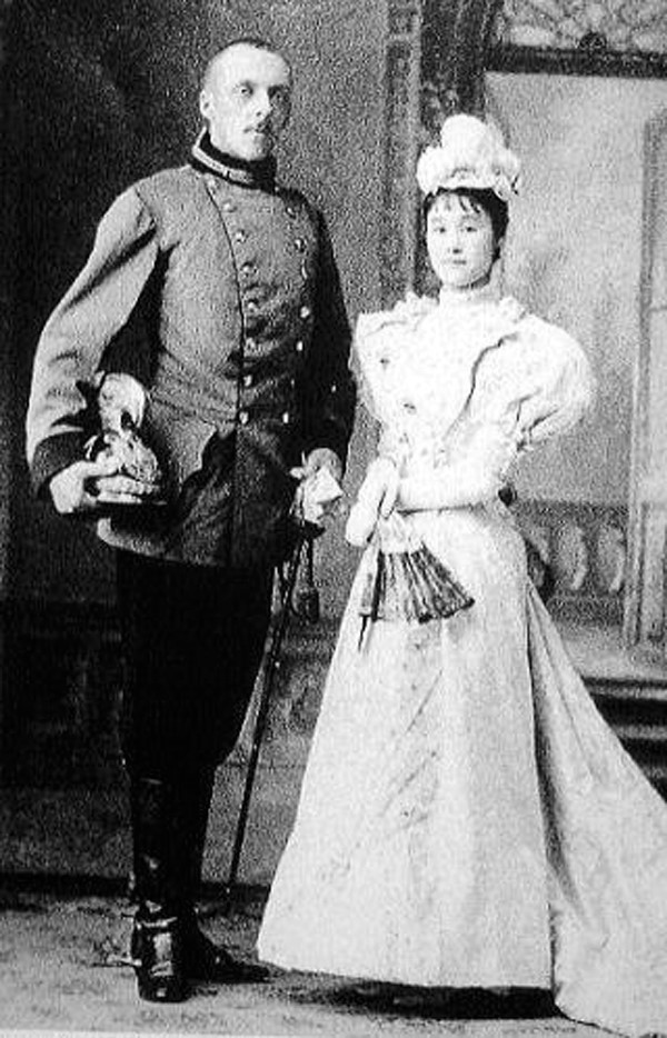 Wwedding photography of Heinrich Coudenhove-Kalergi and Mitsuko Aoyama